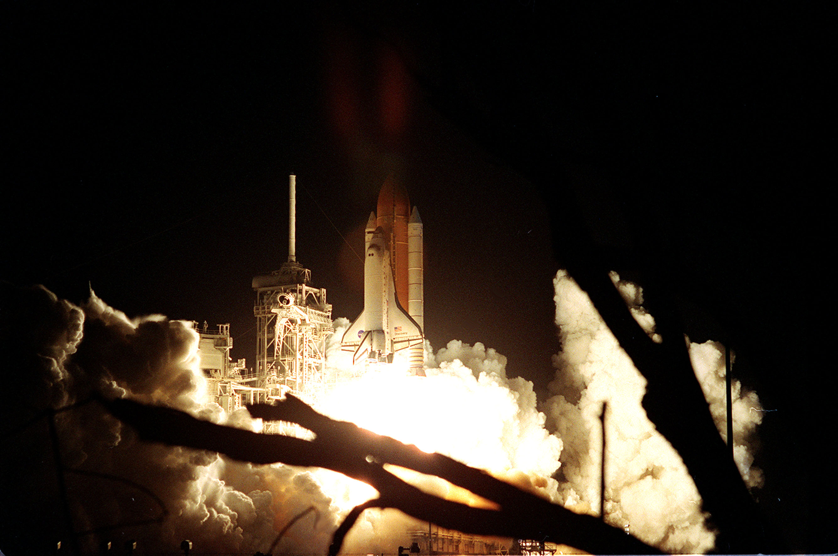 Framed in angle of two tree branches, Space Shuttle Discovery appears to rise out of the smoke and steam at Launch Pad 39A. The perfect on-time liftoff at 7:17 p.m. EDT sends a crew of seven on a construction flight to the International Space Station on mission STS-92, the 100th in the history of the Shuttle program. Discovery also carries a payload that includes the Integrated Truss Structure Z-1, first of 10 trusses that will form the backbone of the Space Station, and the third Pressurized Mating Adapter that will provide a Shuttle docking port for solar array installation on the sixth Station flight and Lab installation on the seventh Station flight. Discovery's landing is expected Oct. 22 at 2:10 p.m. EDT.